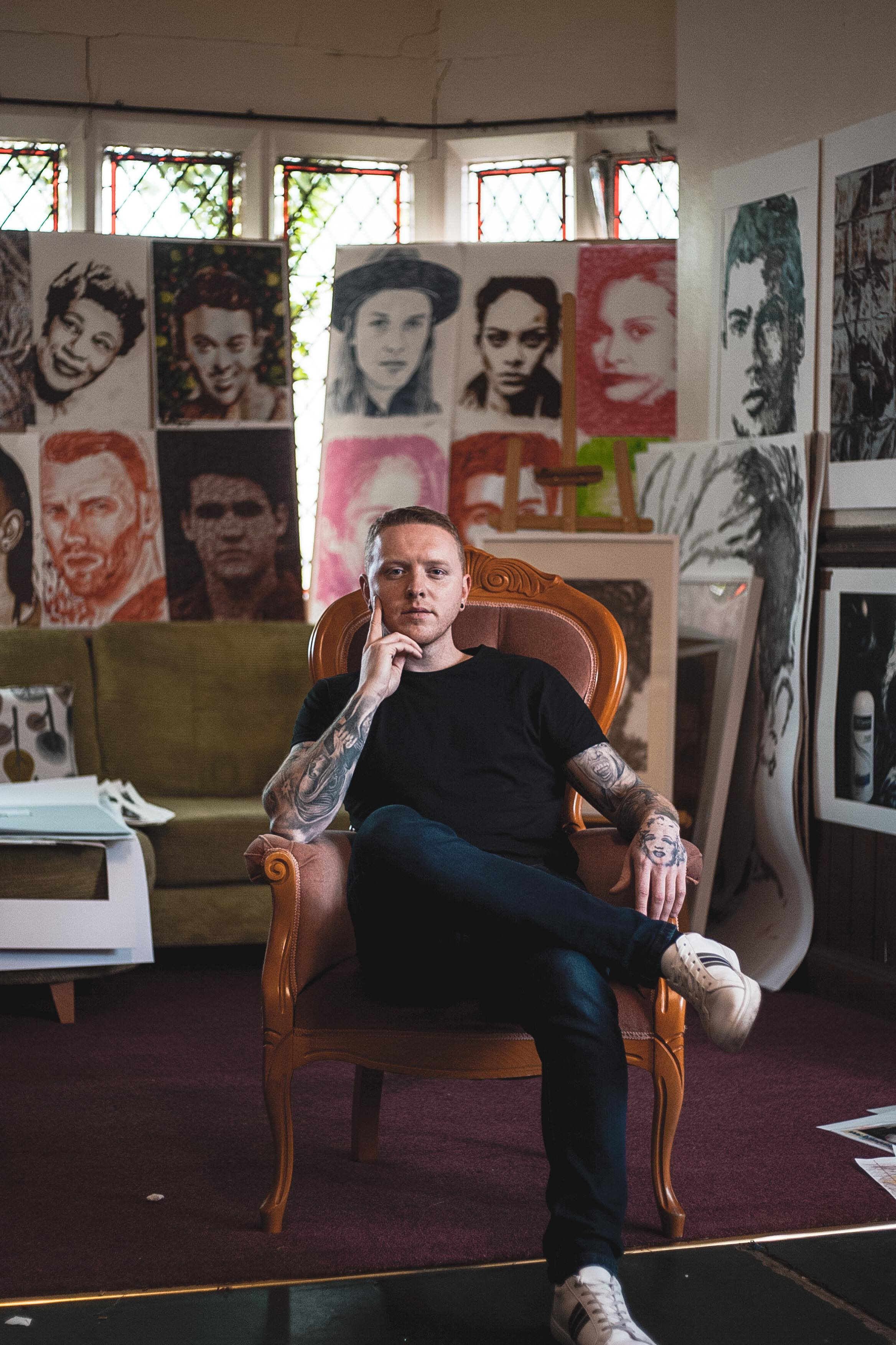 Artist Nathan Wyburn in his studio, with some of his portrait artwork.